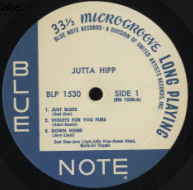 record-label of vinyl-record from Jutta Hipp of Blue Note Records